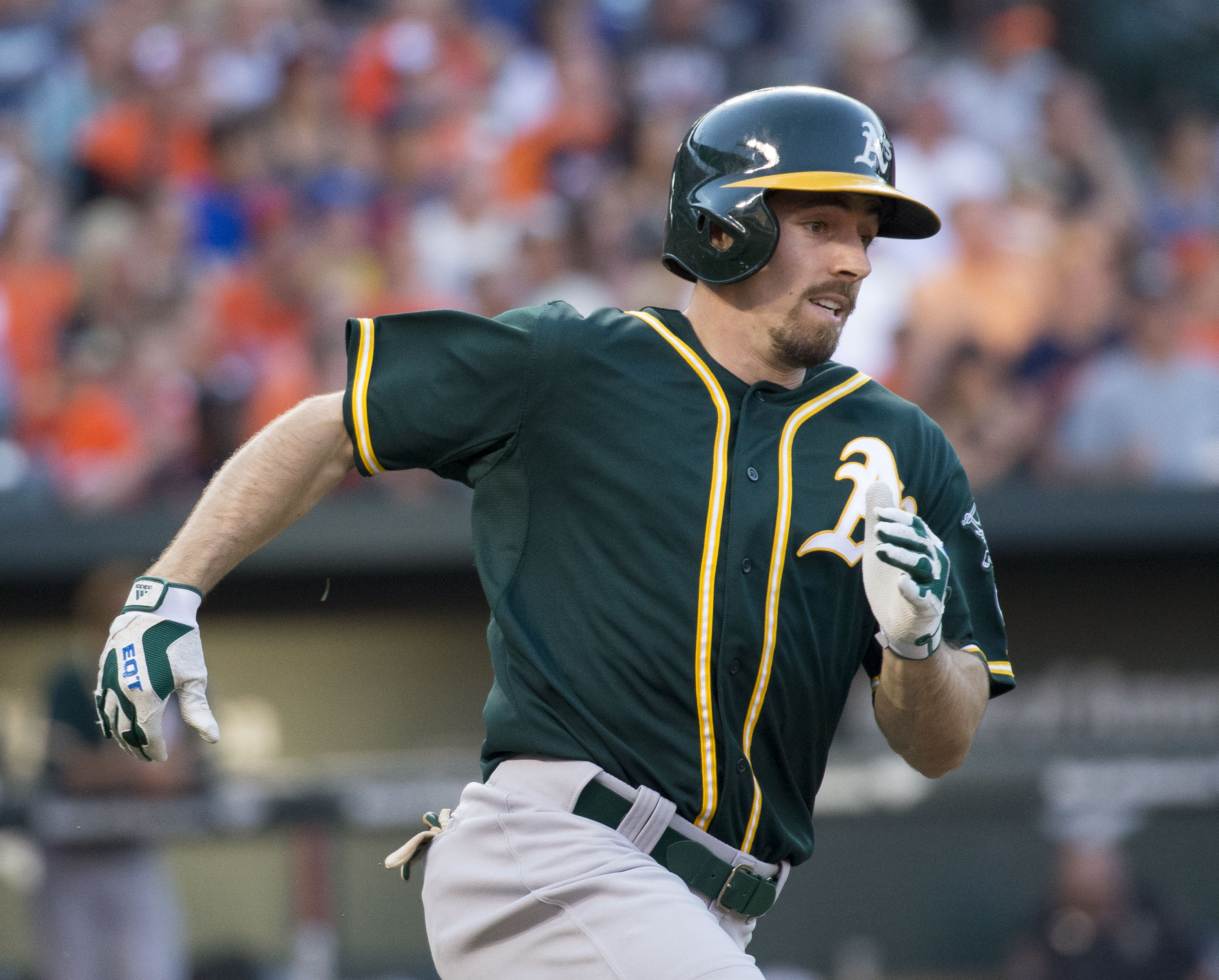 Billy Burns